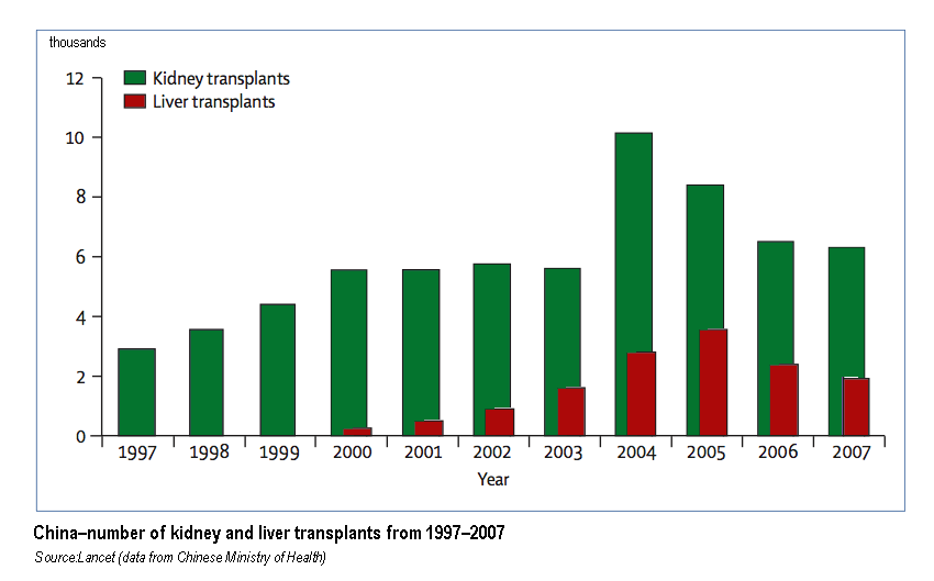 graphic showing the trend in liver and heart transplants in the People's Republic of China (1997-2007). Graphic modelled on one published in Government policy and organ transplantation in China by Huang Jiefu, published in The Lancet Volume 372, Issue 9654, Pages 1937-1938, Dec. 6, 2008 (online: Oct. 20, 2008)